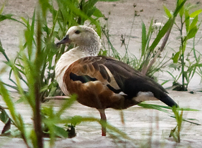 Orinoco Goose. Location: at a river bank of Madre de Dios, Peru